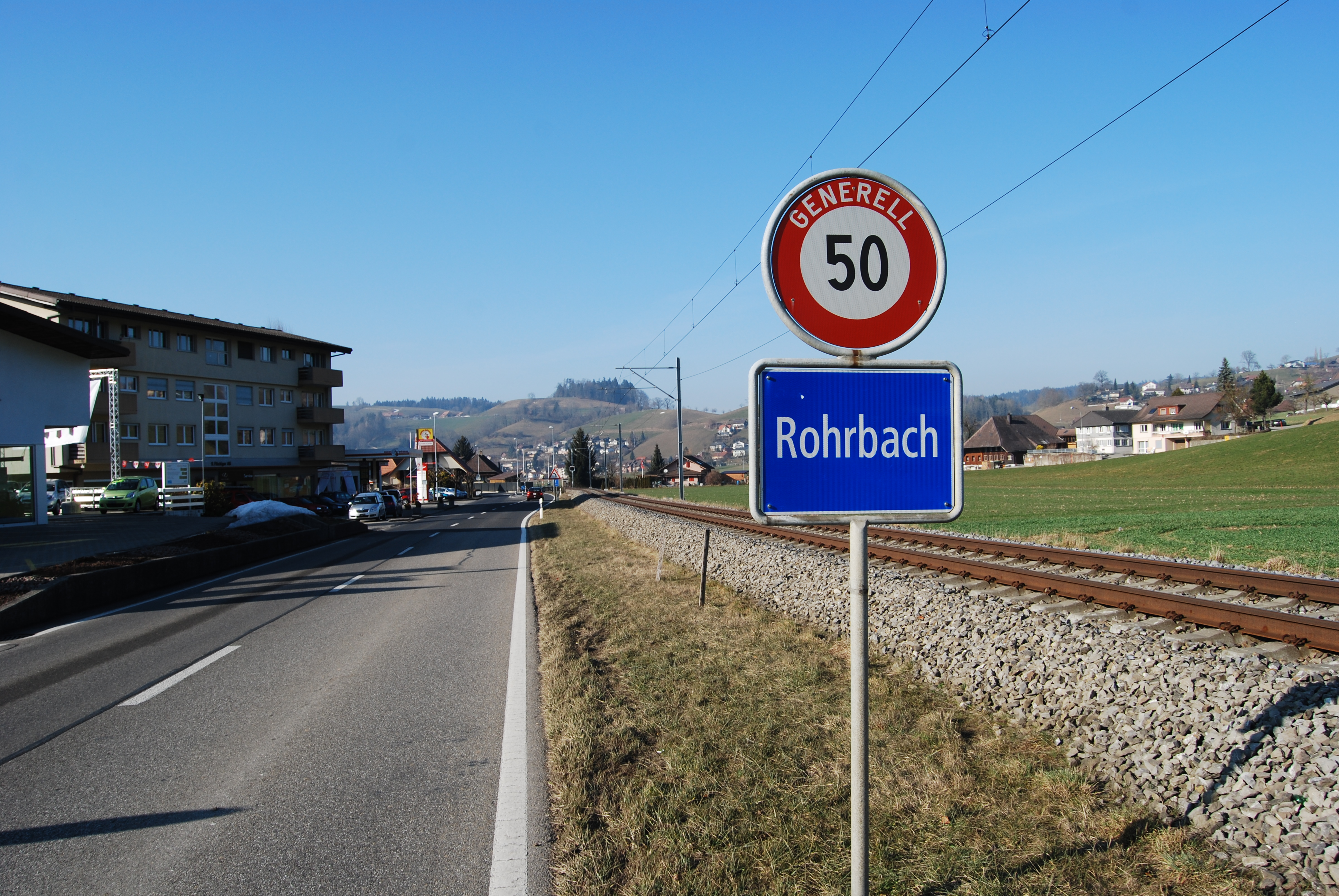 Rohrbach, canton of Bern, SwitzerlandEsperanto: Rohrbach, Kantono Berno, Svislando